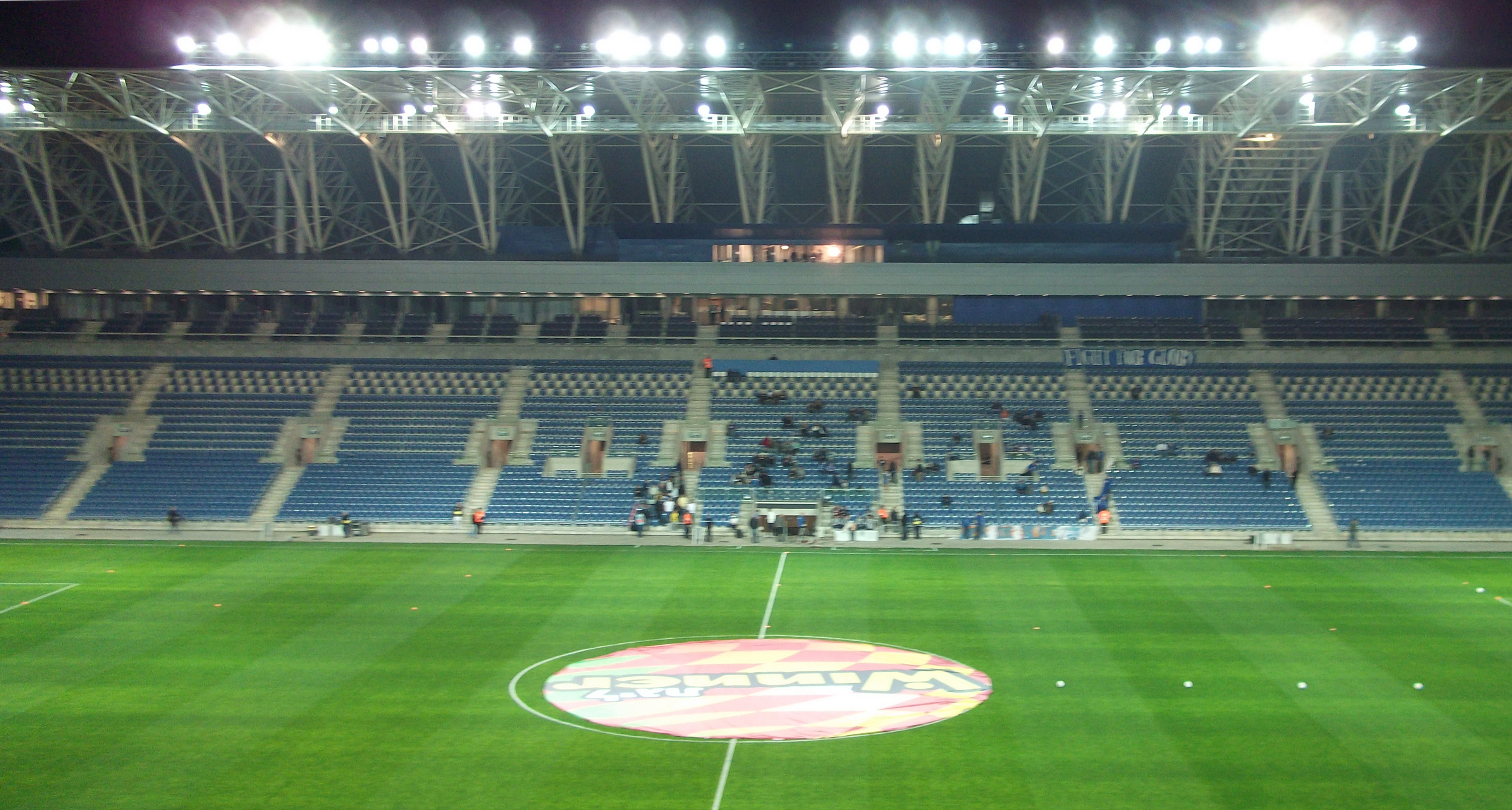 HaMoshava Stadium, Petach Tivka